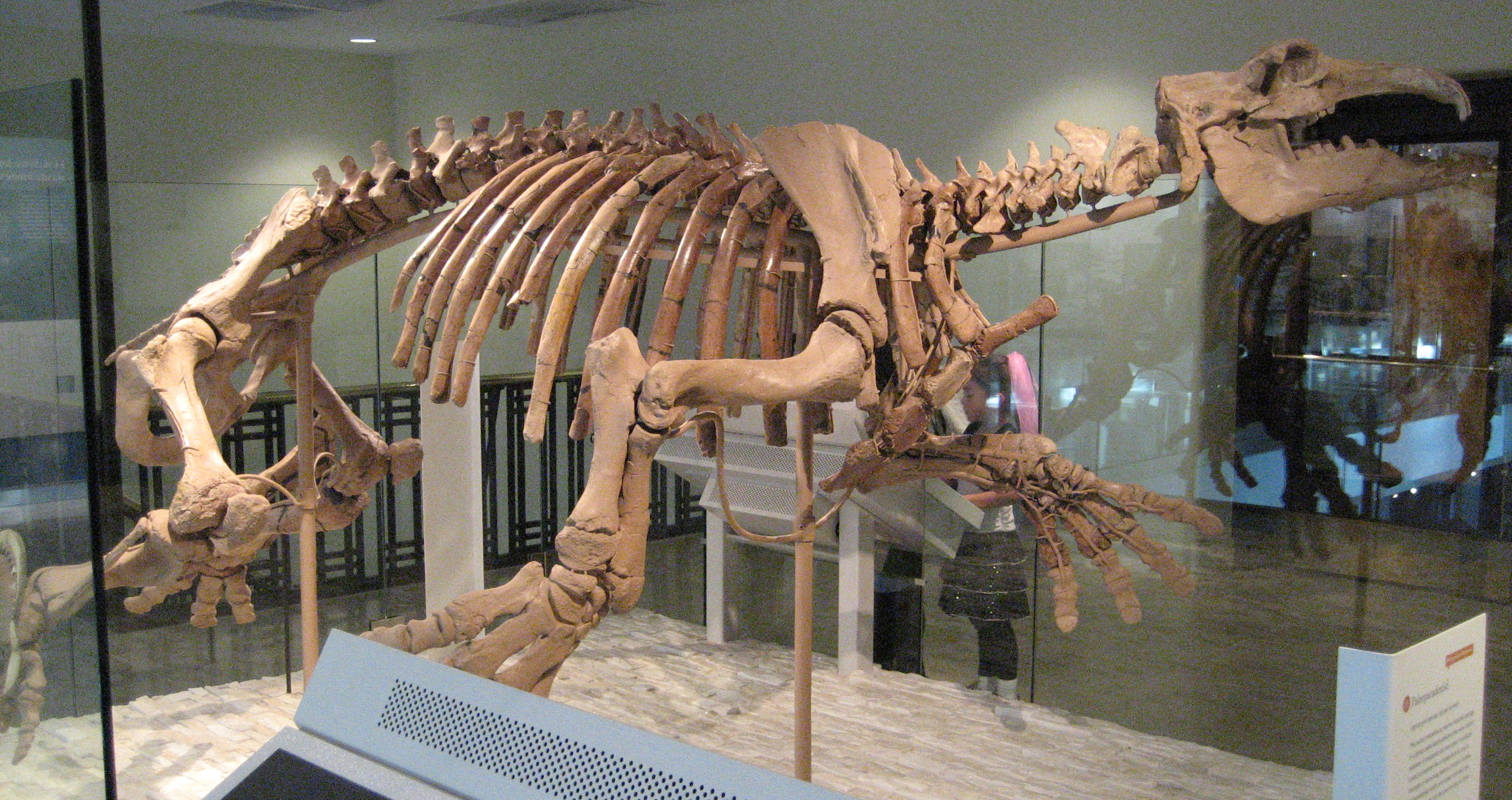 Neoparadoxia cecilialina Paleoparadoxiid skeleton at the Natural History Museum of Los Angeles County.